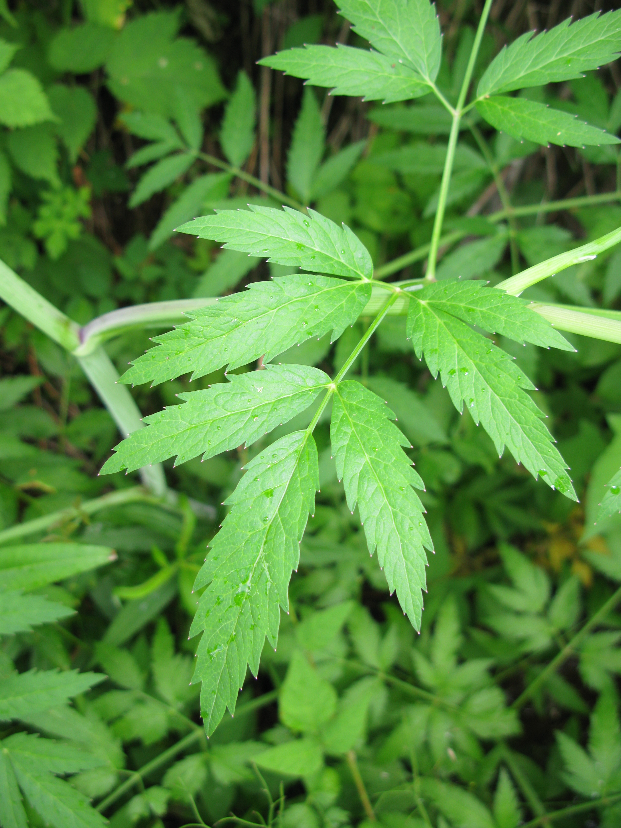 Cicuta virosa, Aizu area, Fukushima pref., Japan